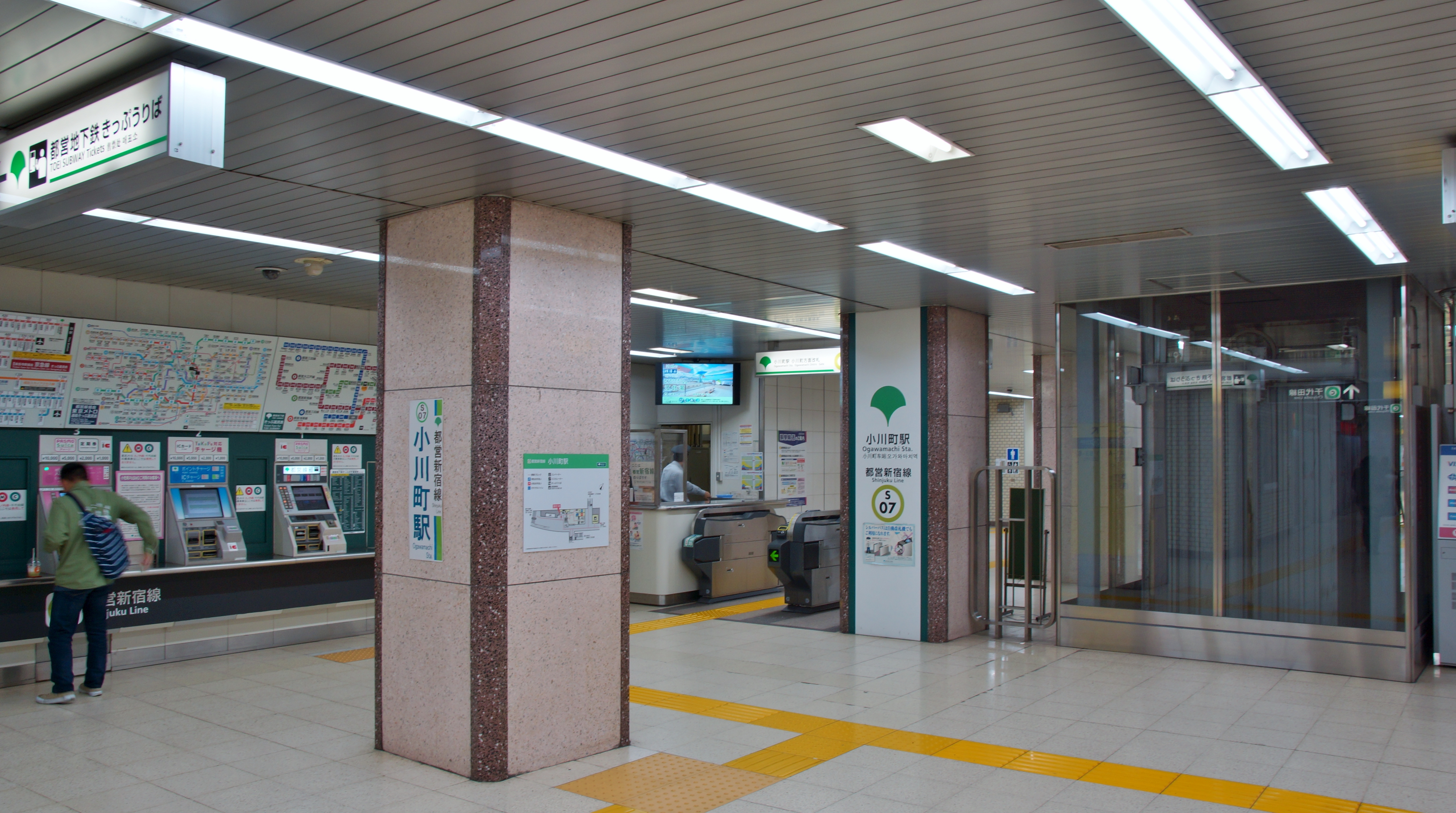 The Ogawamachi ticket barriers at Ogawamachi subway station in Tokyo